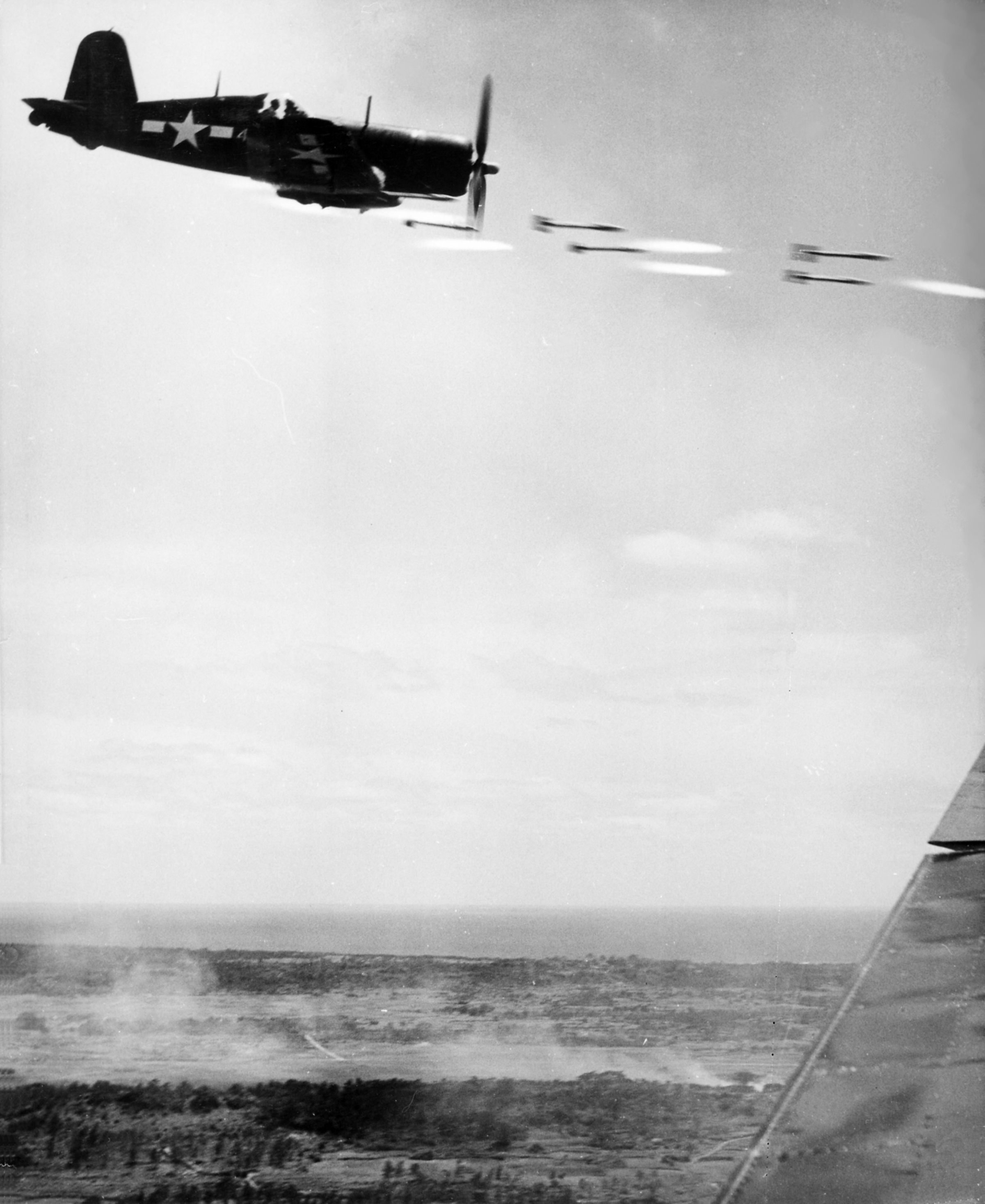 A U.S. Marine Corps Vought F4U-1 Corsair looses its load of FFAR rocket projectiles on a run against a Japanese stronghold on Okinawa.Original description: "Corsair fighter looses its load of rocket projectiles on a run against a Japanese stronghold on Okinawa. In the lower background is the smoke of battle as Marine units move in to follow up with a Sunday punch. ca. June 1945"